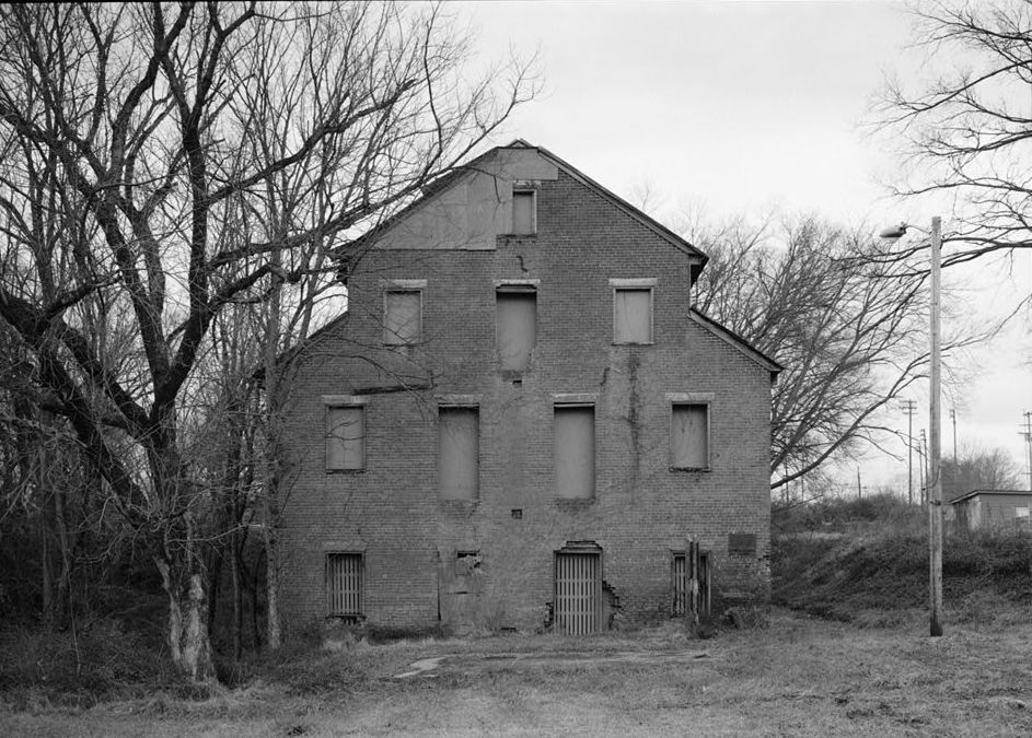 The Lenoir Cotton Mill's north facade, in Lenoir City, Tennessee USA, photographed in 1983.